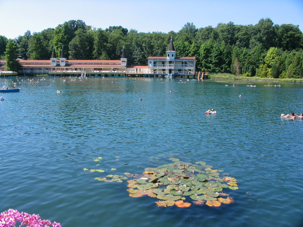 own work